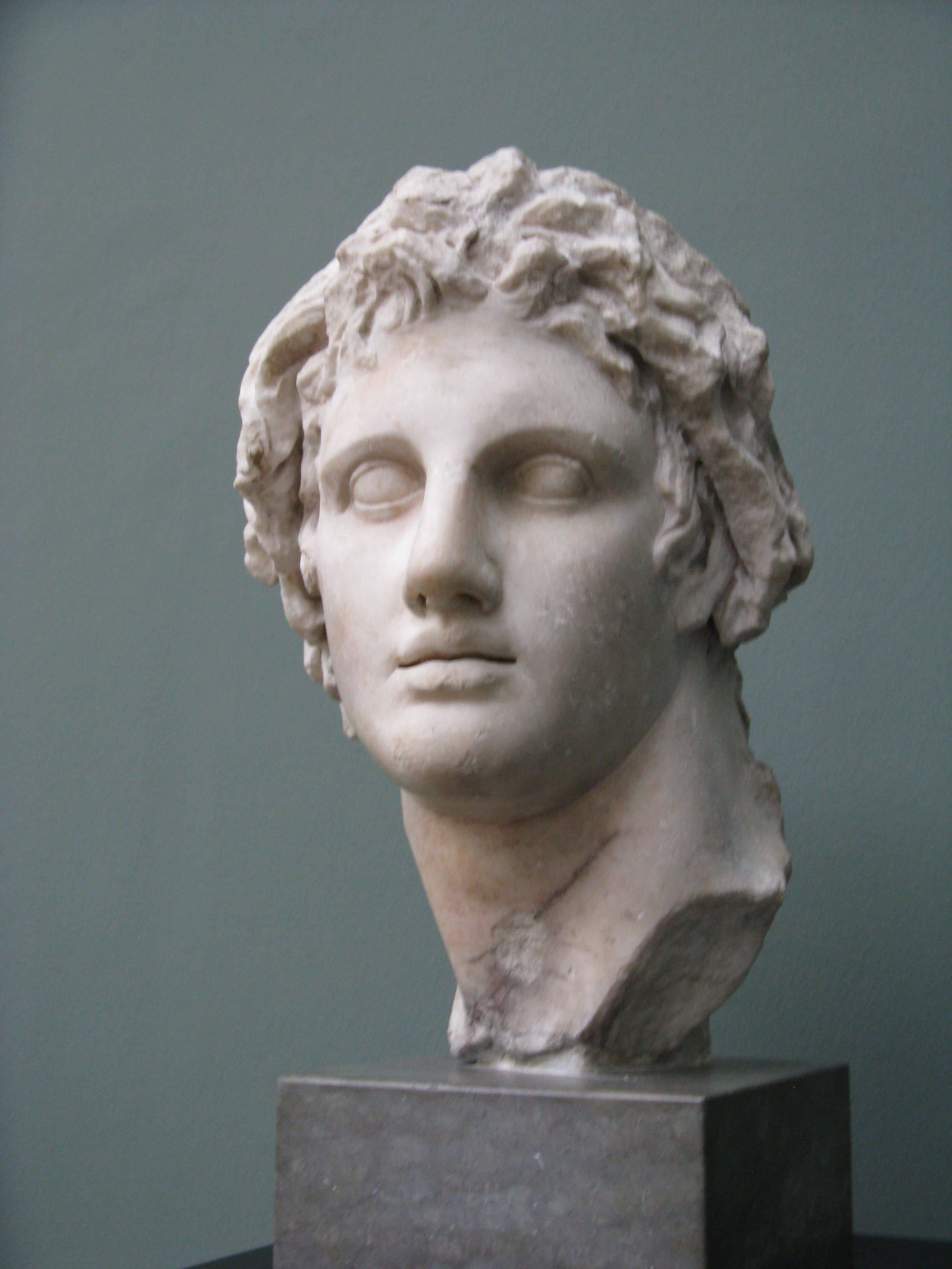 Bust of Alexander the Great at Ny Carlsberg Glyptotek.